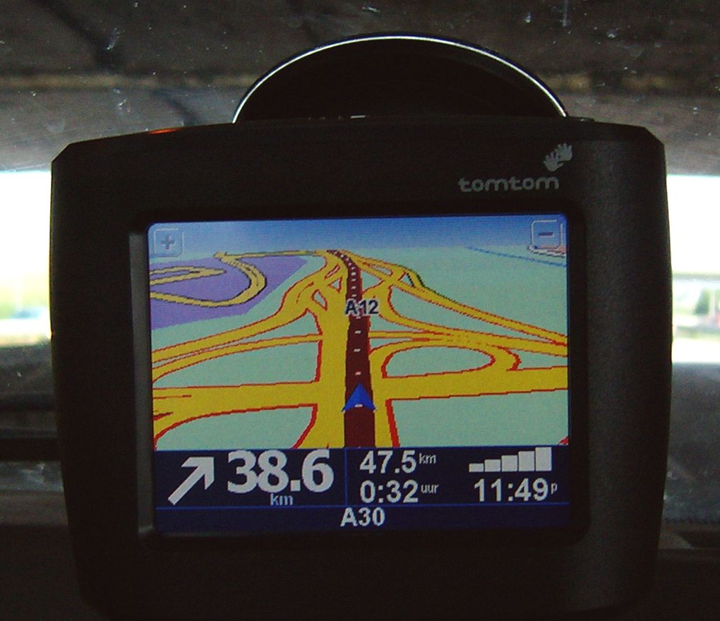 TomTom One, car navigation system at junction Oudenrijn, Netherlands